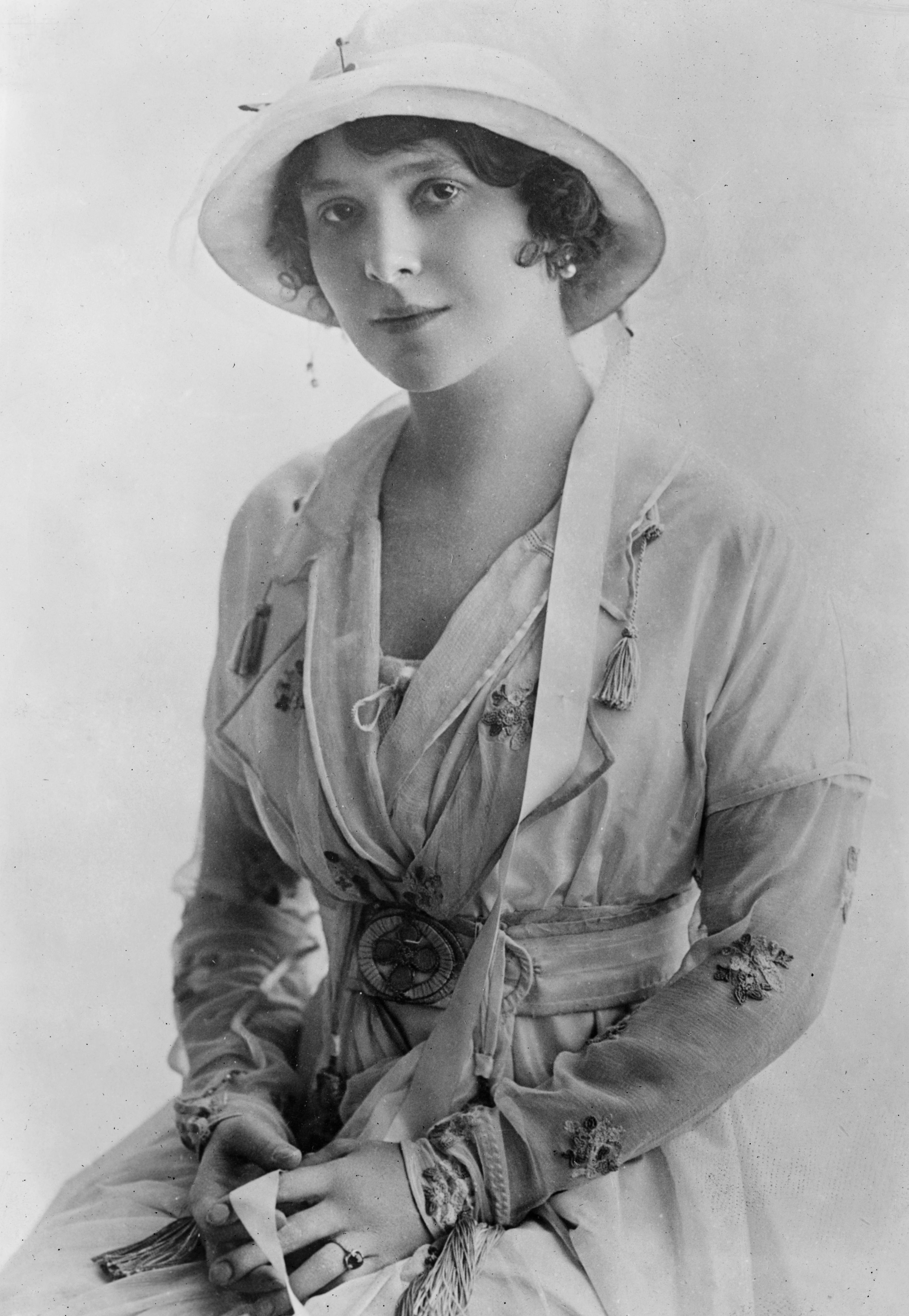 Sári Petráss (1888 – died September 9, 1930 at Antwerp), Hungarian operetta actress and singer